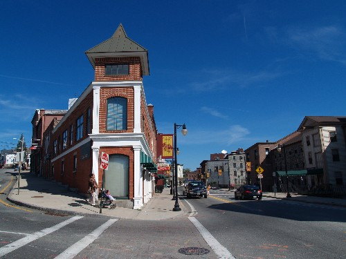 Downtown Woonsocket, Rhode Island